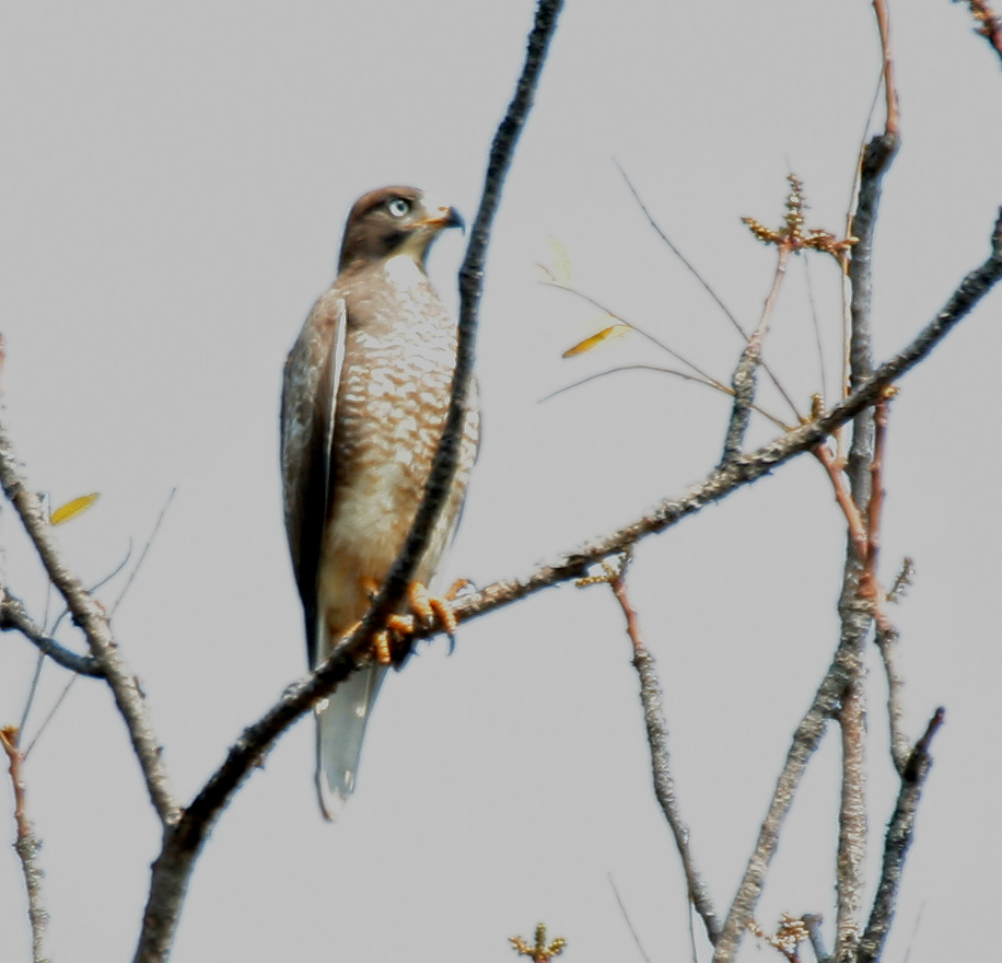 White-eyed Buzzard Butastur teesa in Kawal Wildlife Sanctuary, Andhra Pradesh, India.